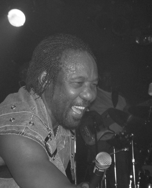 Frederic Toots Hibbert, reggae singer of Toots & The Maytals